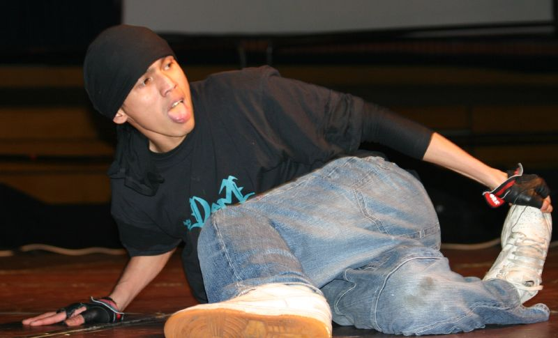 A breakdancer performing downrock.